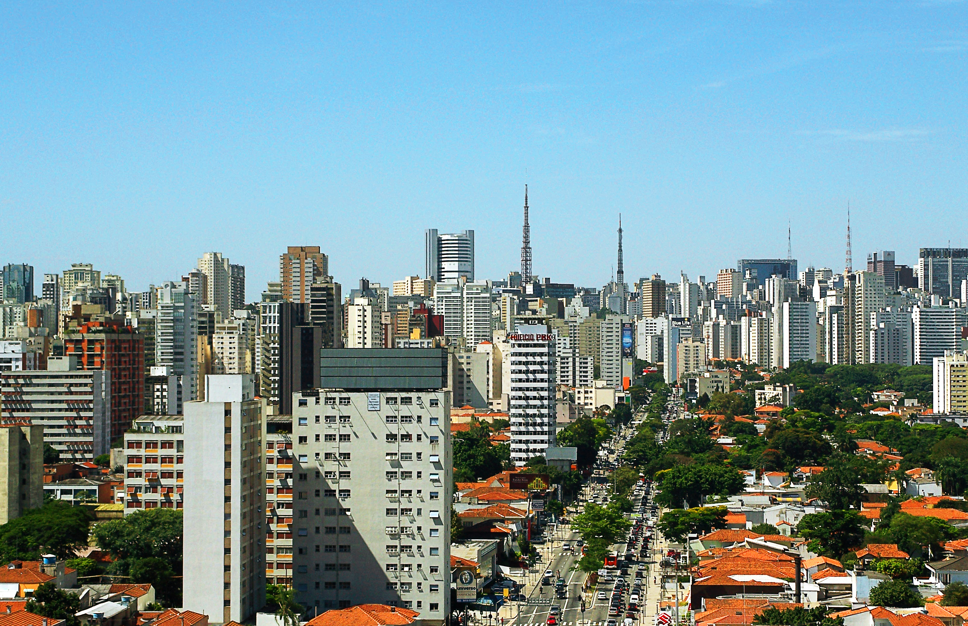 Avenida Rebouças, in São Paulo, Brazil.